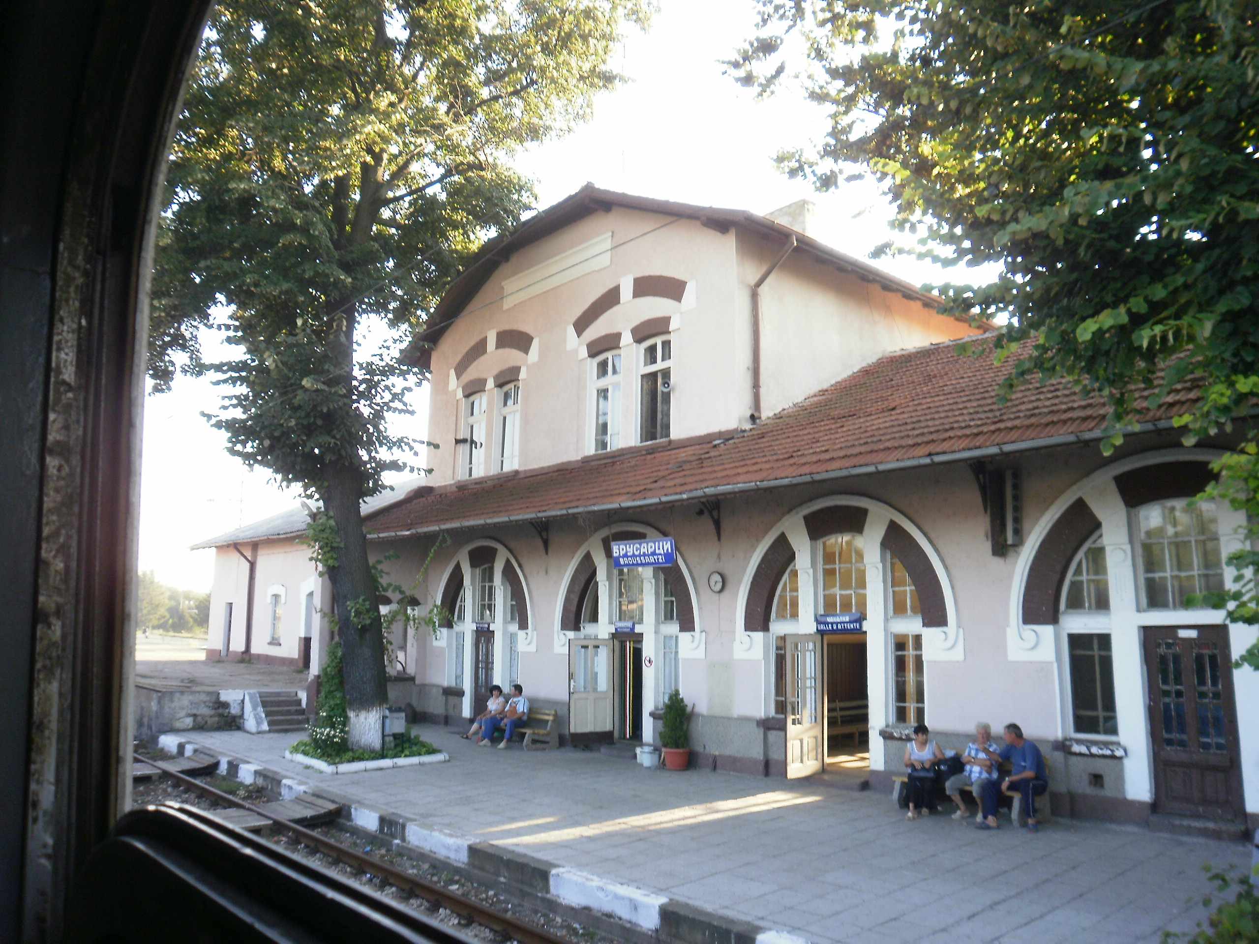 Brusartsi railway station, Bulgaria.